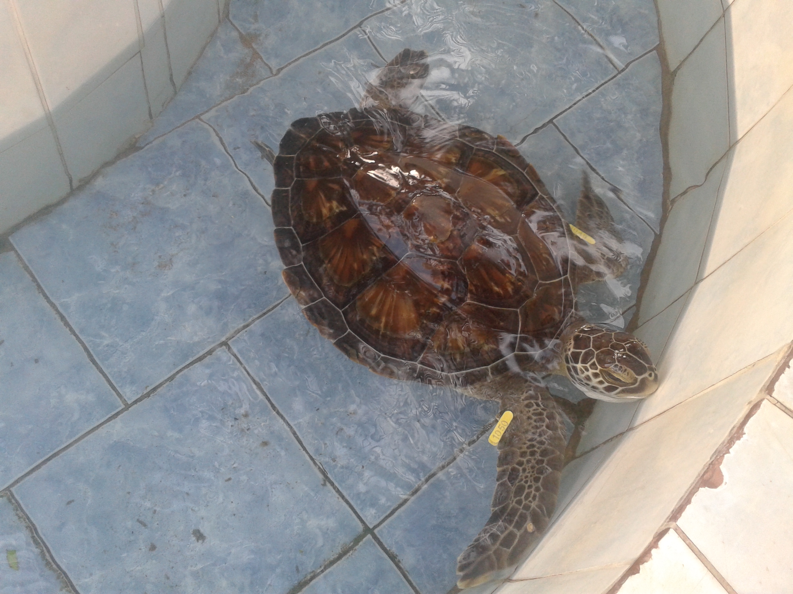 A Confiscated Green Sea Turtle before release at Aqaba Gulf